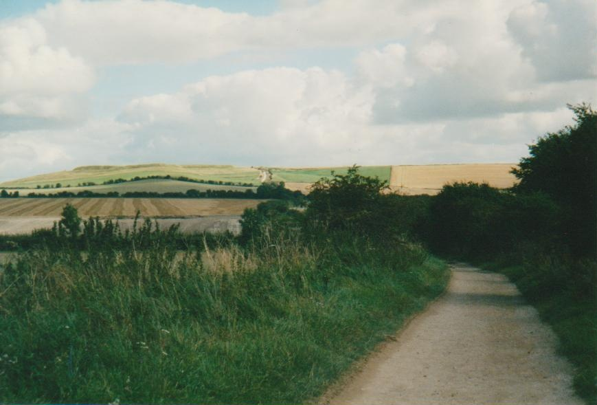 The Ridgeway, looking eastwards, with Uffington Castle ringfort in distance on left